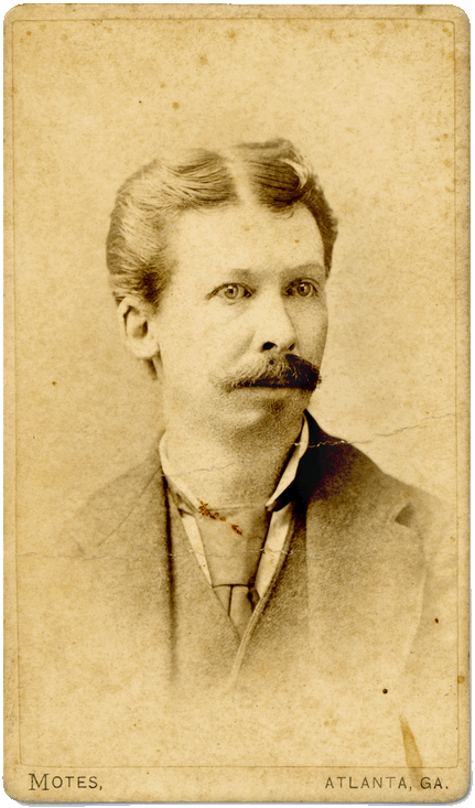 This is a portrait of Joel Chandler Harris, journalist and author, taken in Atlanta in 1873.